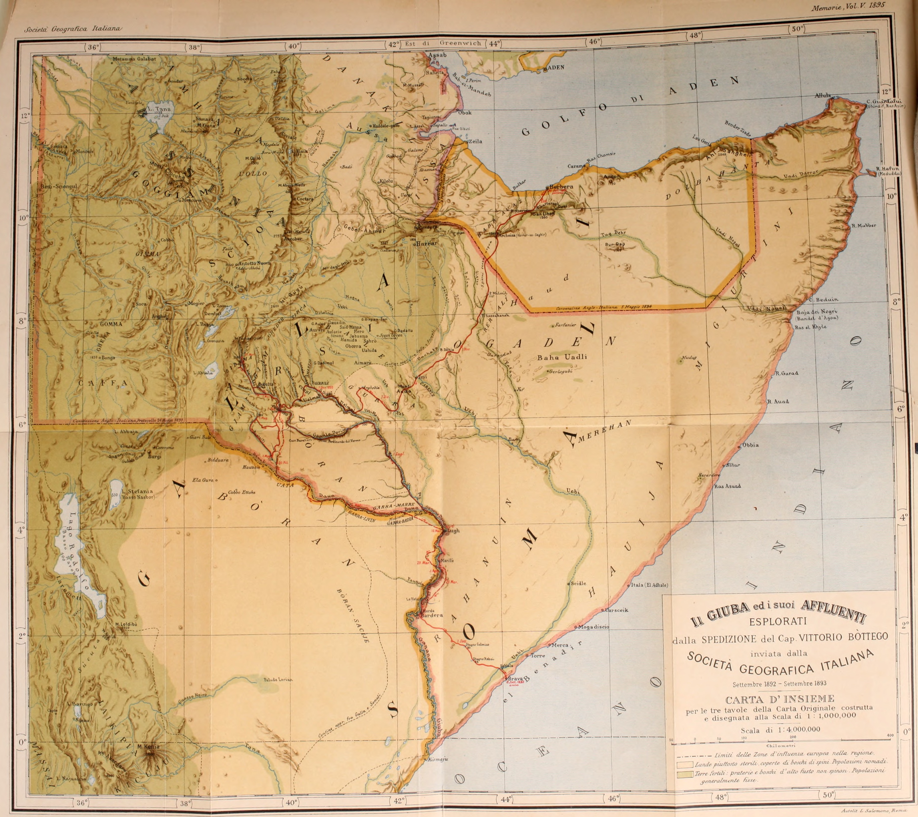 Title: Coleotteri Year: 1895 (1890s) Authors: Gestro, R. (Raffaello), 1845-1936; Società geografica italiana Subjects: Beetles; Beetles; Beetles; Beetles Publisher: Genova : R. Istituto Sordi-Muti Text Appearing Before Image: ' Text Appearing After Image: ESPLORATI ~~^JÌf ^alla SPEDIZIONE del Cap VITTORIO BÒTTEGO '^^^ GEOGRAFlC^ ^^'^^^ Settembre 1892 - Settembre 1893 CARTA D'INSIEME oer le tre tavole della Carta Originale costrutta ^ e diseflttata alla Scala di l : 1,000,000 Scala di 1:4.000,000 u 0° Chilometra Omùt tMle Zon£ d'mfìutnxa europeti nella rv^wfU r^^^luniie piuttosto sUrUi coperte di ècsrht dt spmt ìhpolatwni nonuuit ;- -\Tefrt ffMdt: praterù e òoschi d'alto tust^ non jpiJWsi . Popohziom ^^neralm^n/t^ fùst.- Aulalit L ttulifmMne^Kunttt